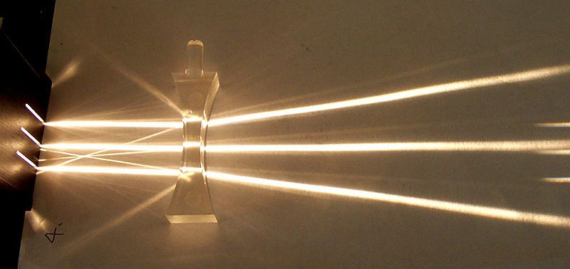 Concave lens Taken by fir0002